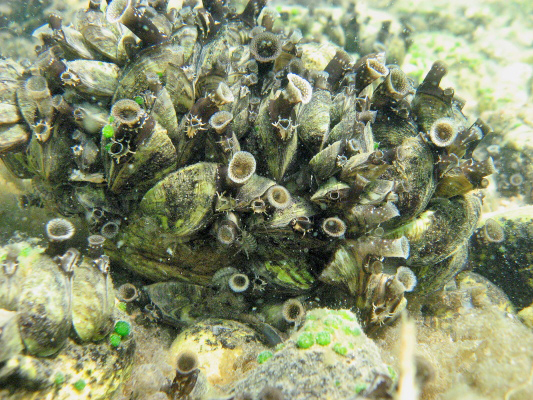 Dreissena stankovicii, Lake Ohrid, Macedonia